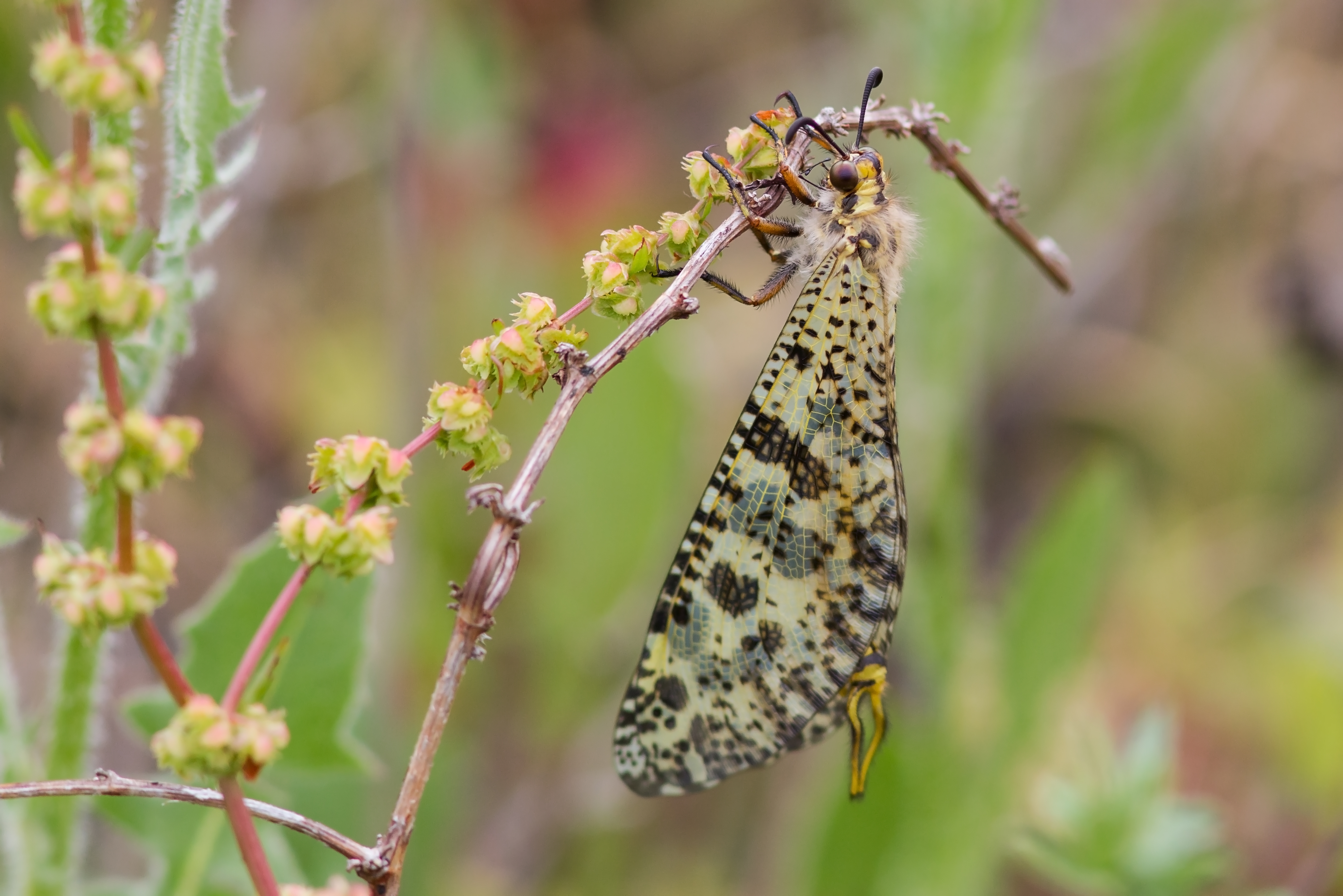 Palpares libelluloides. Myrmeleonidae